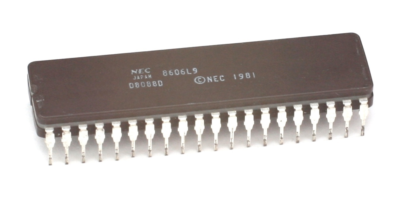 CPU NEC µPD8088 (Intel i8088)